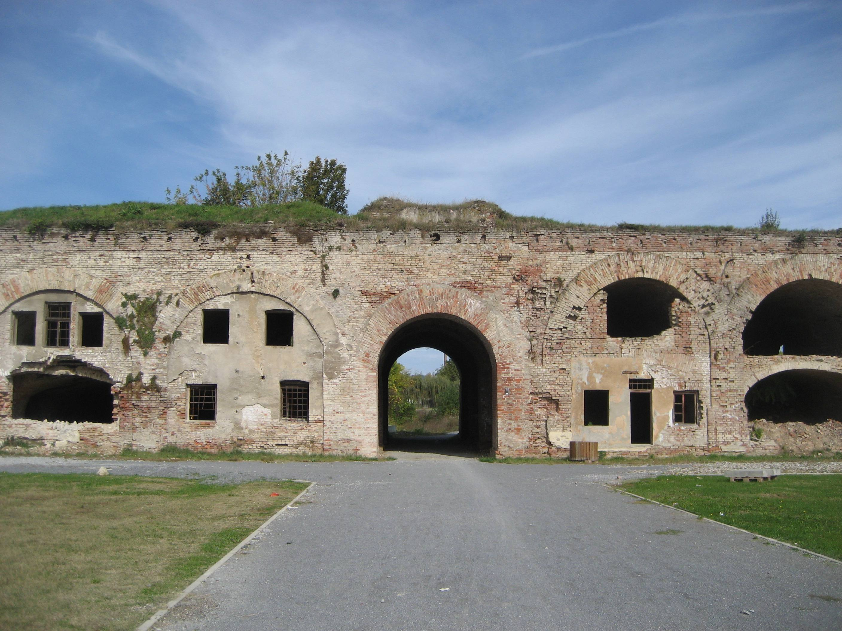 Fortress Brod